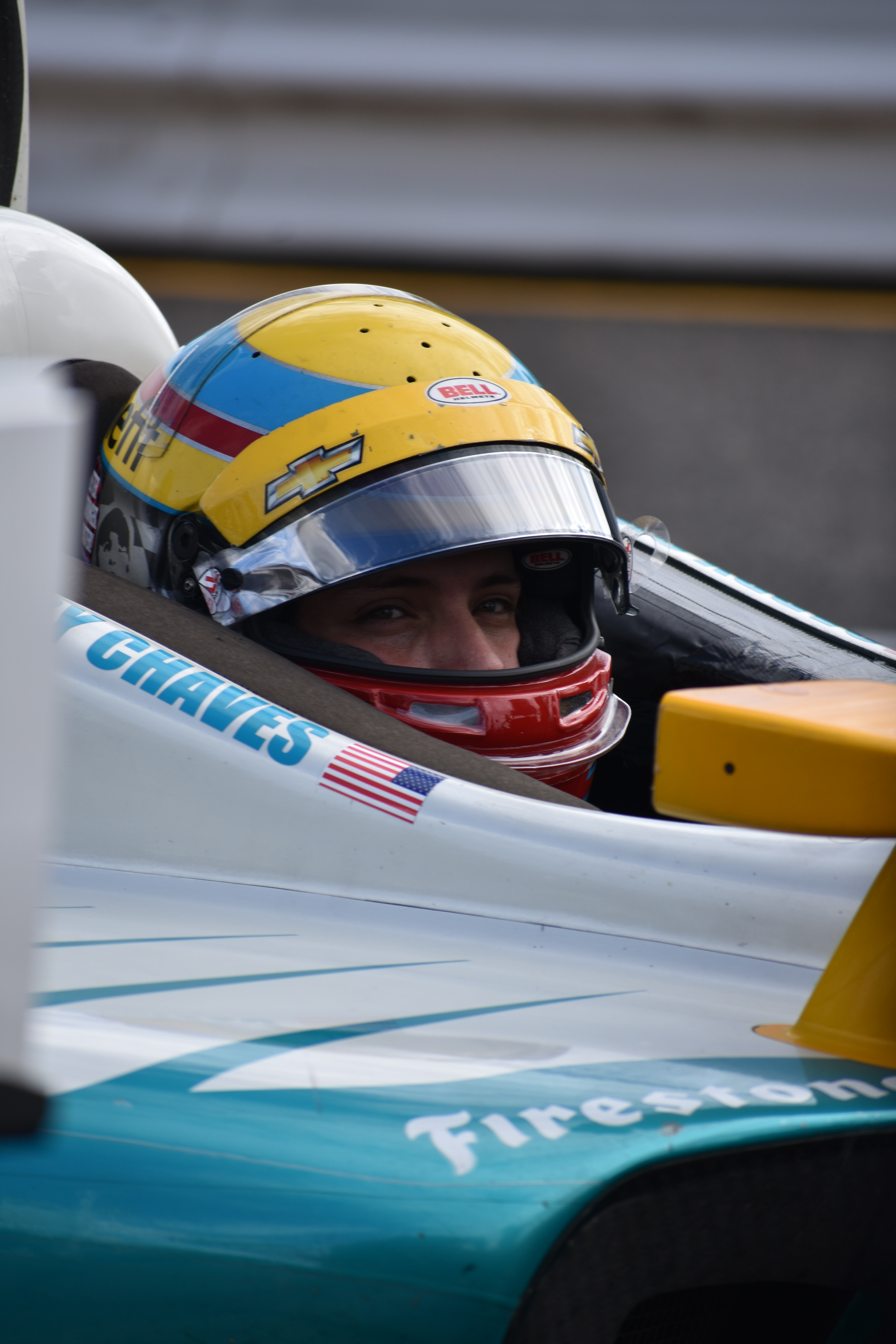 Gabby Chaves at Portland International Raceway in 2018